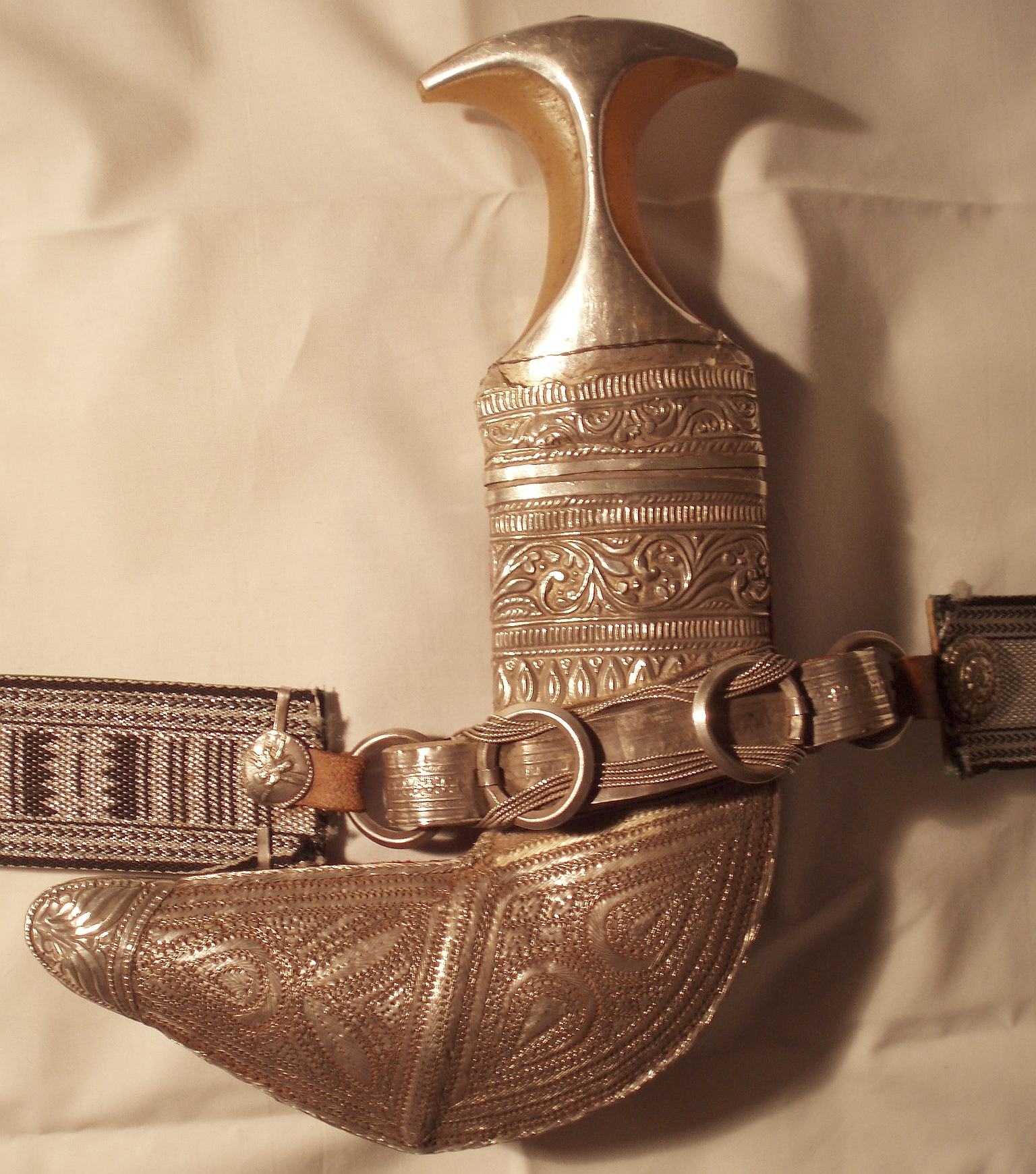 Khanjar, Saidi-type, circa 1924, from Oman.